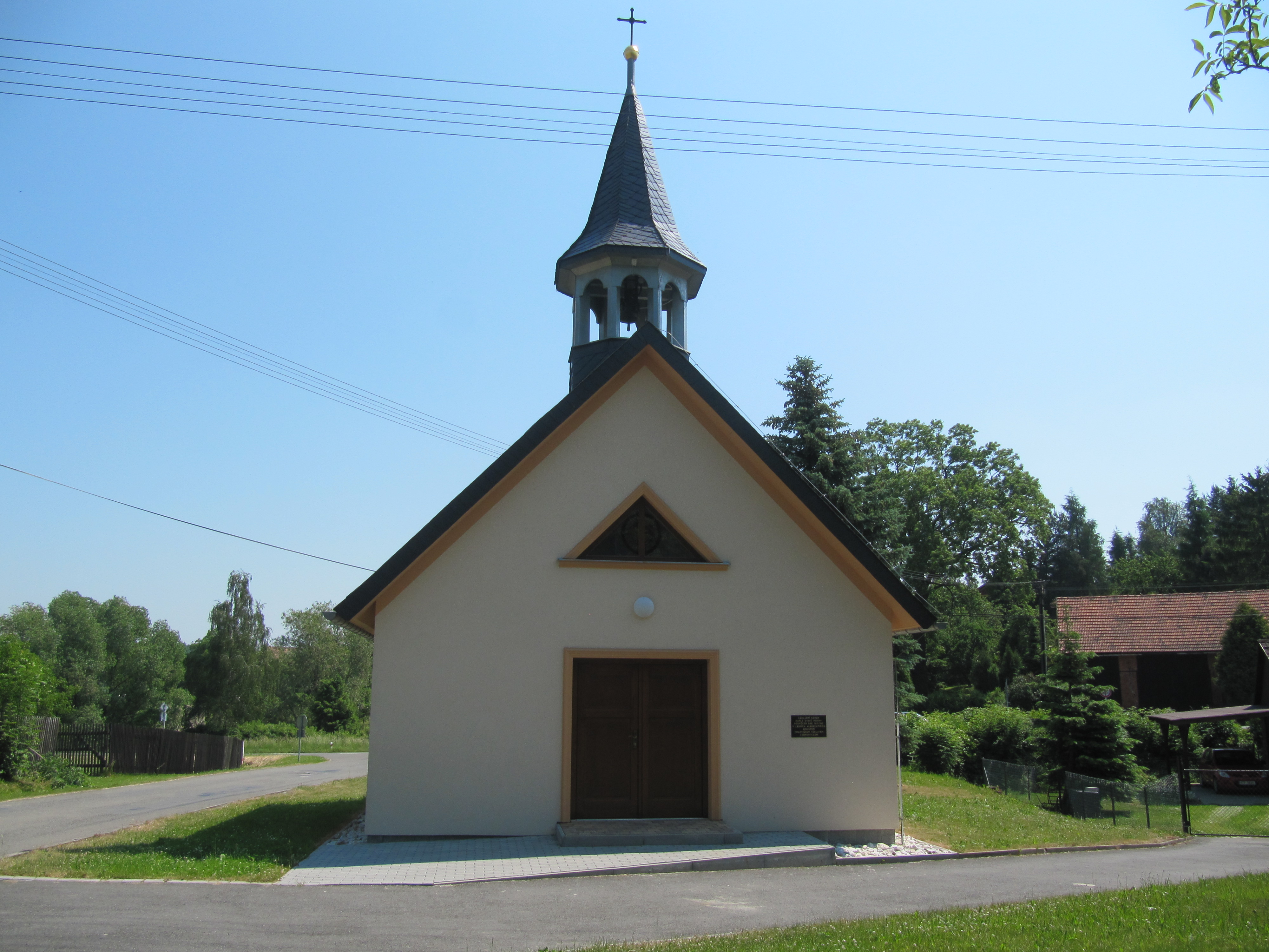 Březová, Opava District, Czech Republic, part Lesní Albrechtice.